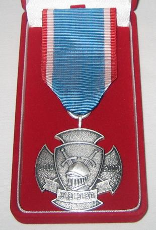 Commemorative Cross of the 600th anniversary of the Battle of Grunwald